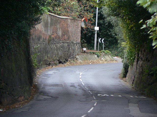 Rock cutting, Bramcote. Chilwell Lane is carved out of the bunter sandstone on its way down from the village towards Chilwell. Making one's way through here as a pedestrian is not recommended; fortunately there is an alternative route via The Home Croft 1478864.